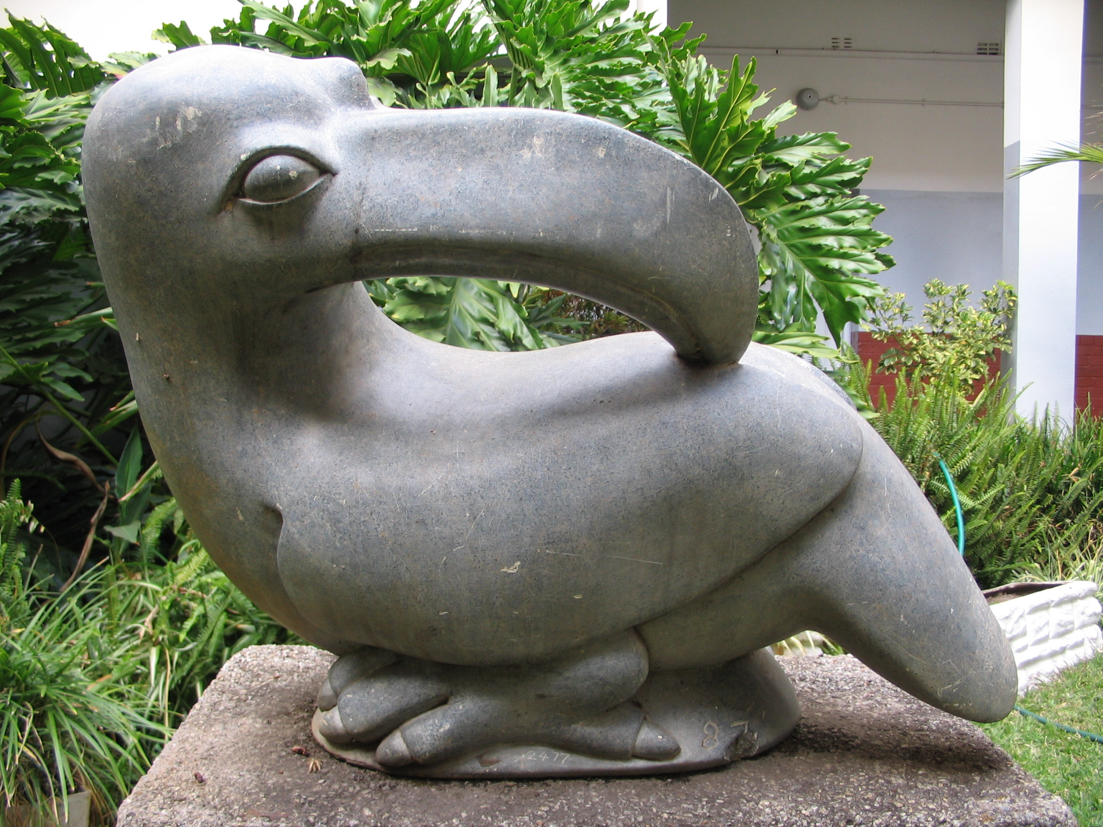 PC - 7300 - 0014, Matemere Bernard, Eagle, 1973